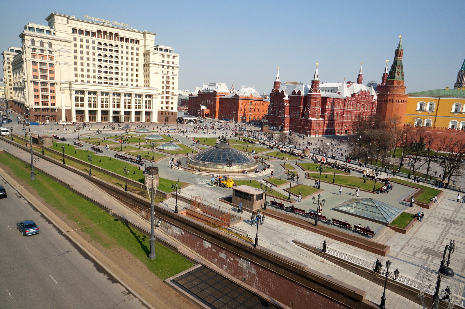 Manezhnaya Square in Moscow